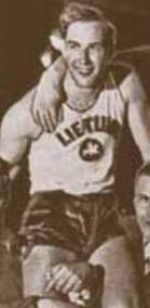 Photo of Pranas Talzūnas during the EuroBasket 1937 in Riga, Latvia.